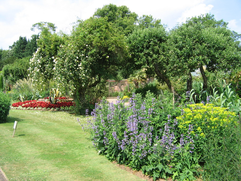 Gardens at Cotswold Wildlife Park, Burford, Oxfordshire, England.